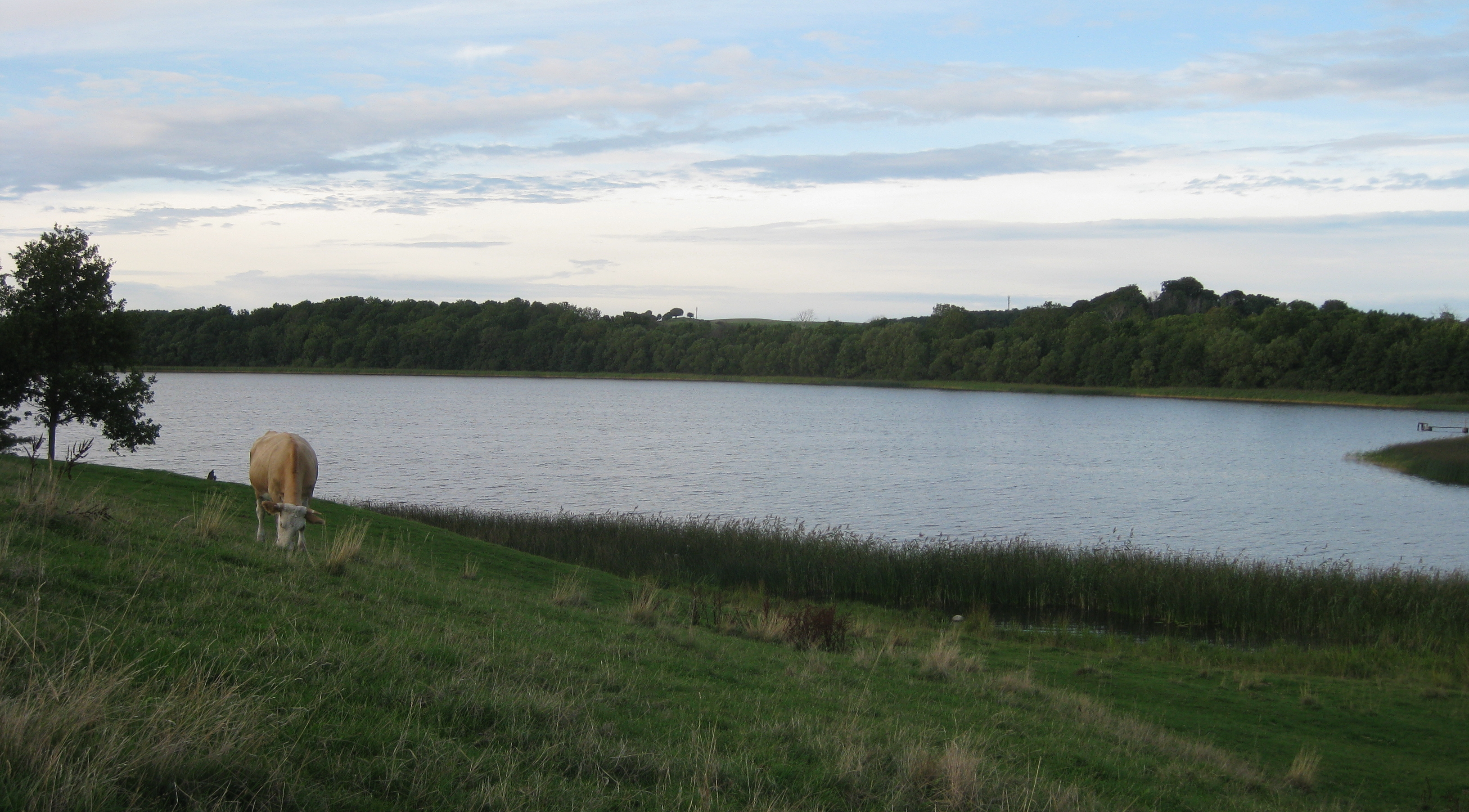 Havgårdssjön, Skåne, Sweden